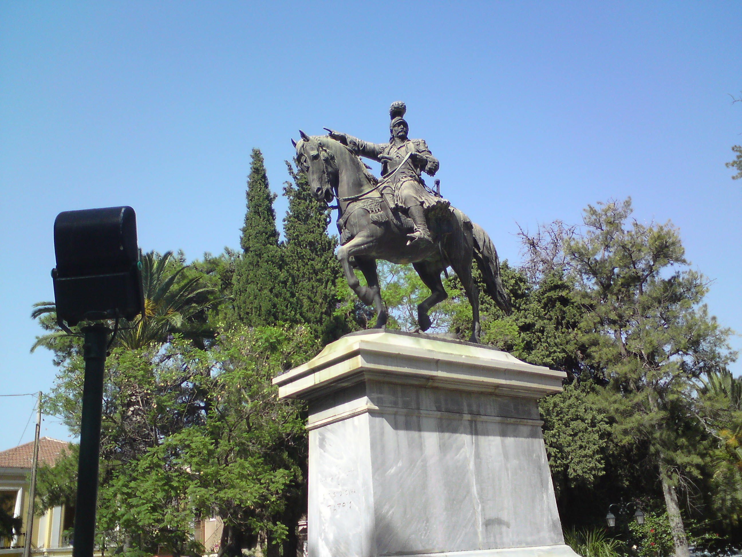 Statue of Theodoros Kolokotronis, Nafplion